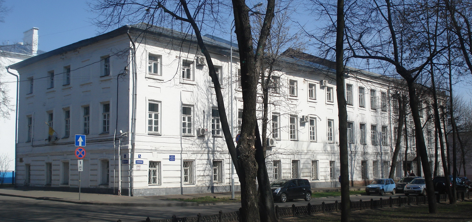 The former bank branch